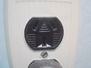 author: wa2ise, aka Robert Casey. (The author has entitled this "Au-outlet" but it is NOT Australian, since the outlets are not individually switched and the face-plate (probably of metal) is secured by a metal screw, both of which may be touched by a user. While this US design predates the NEMA sockets and plugs, it is similar to NEMA 10-20)